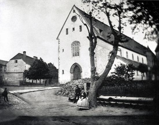 Stavanger cathedral 1865